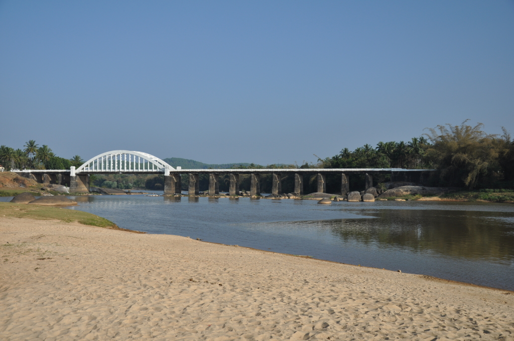 Thirthahalli. ಕನ್ನಡ: ತೀರ್ಥಹಳ್ಳಿ.